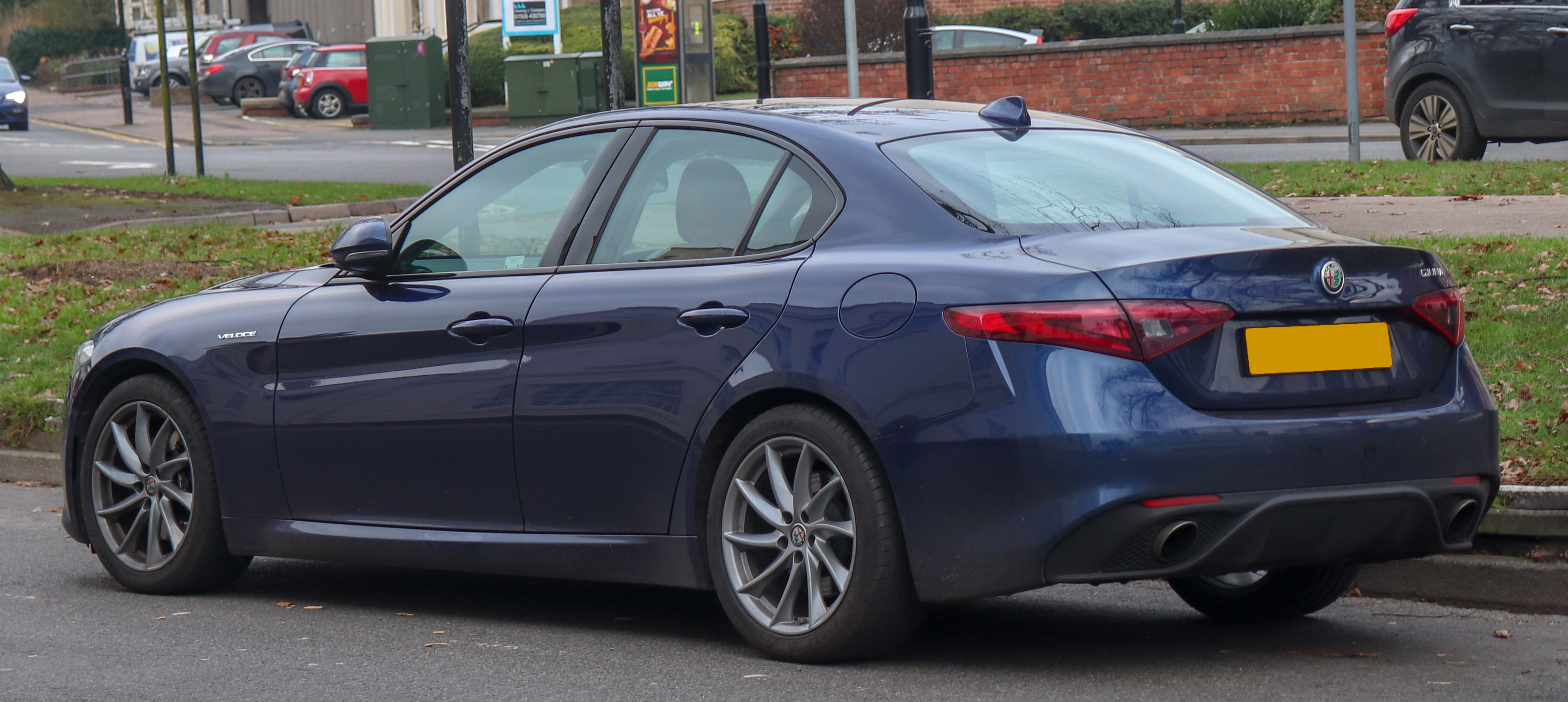 2018 Alfa Romeo Giulia Veloce TB Automatic 2.0 Rear Taken in Leamington Spa